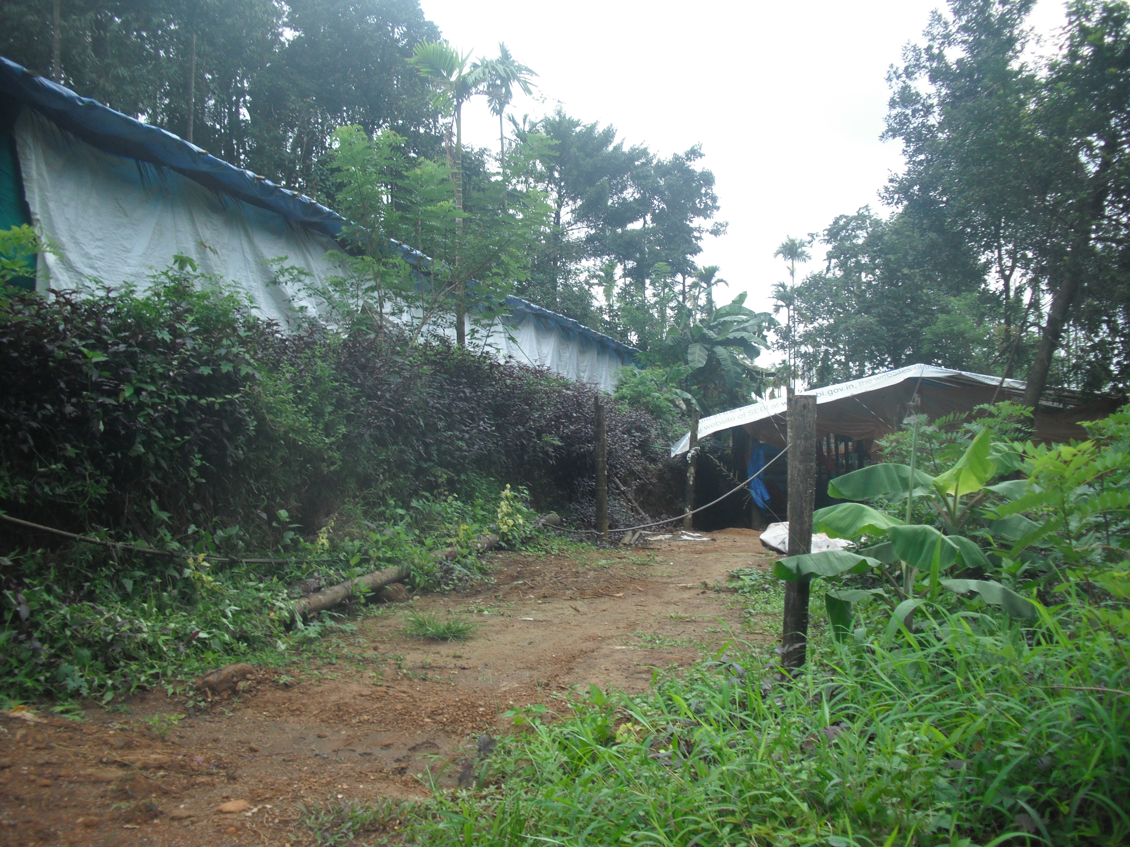 Increasing Farms